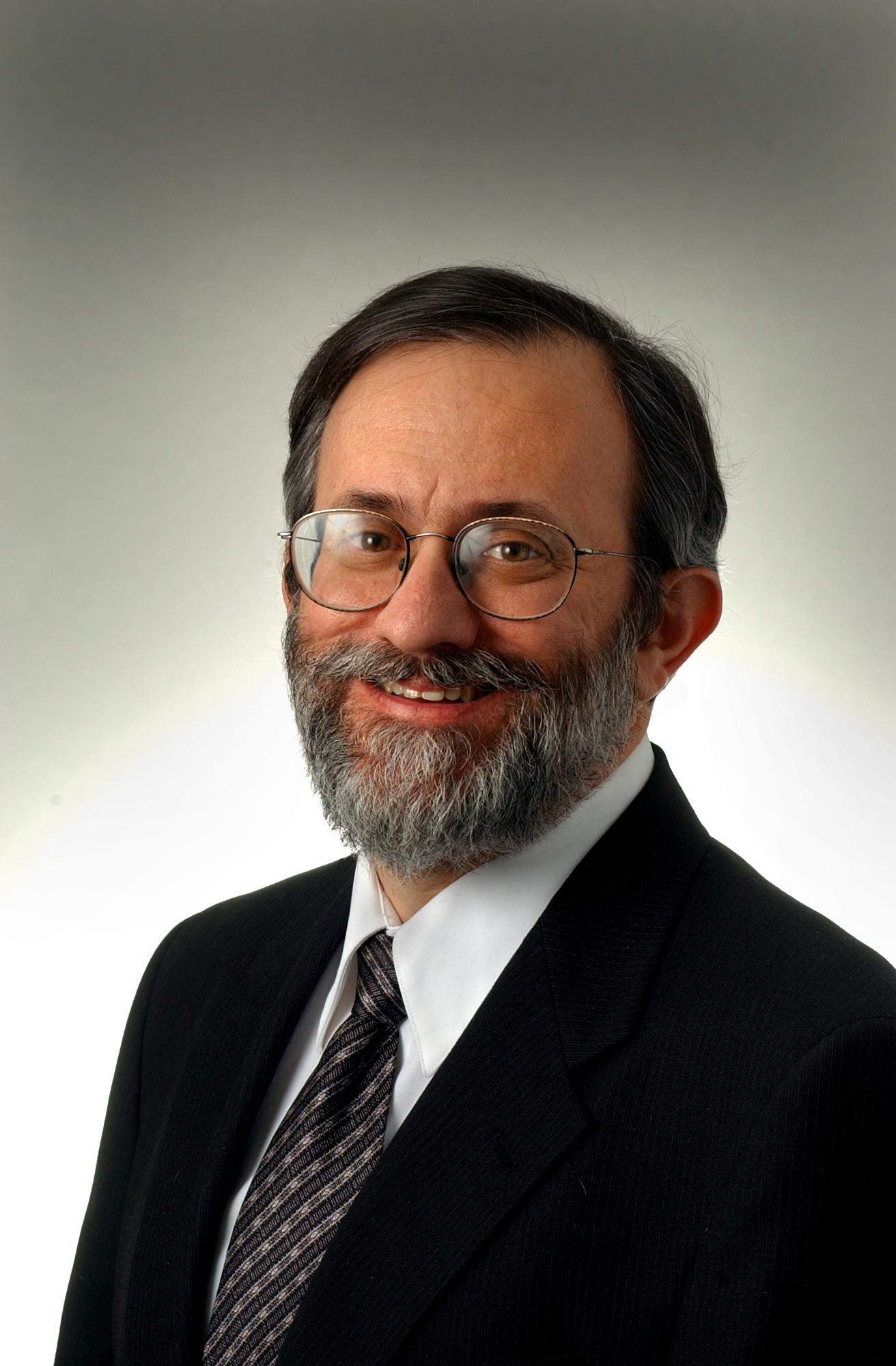 Portrait of Joel Emer